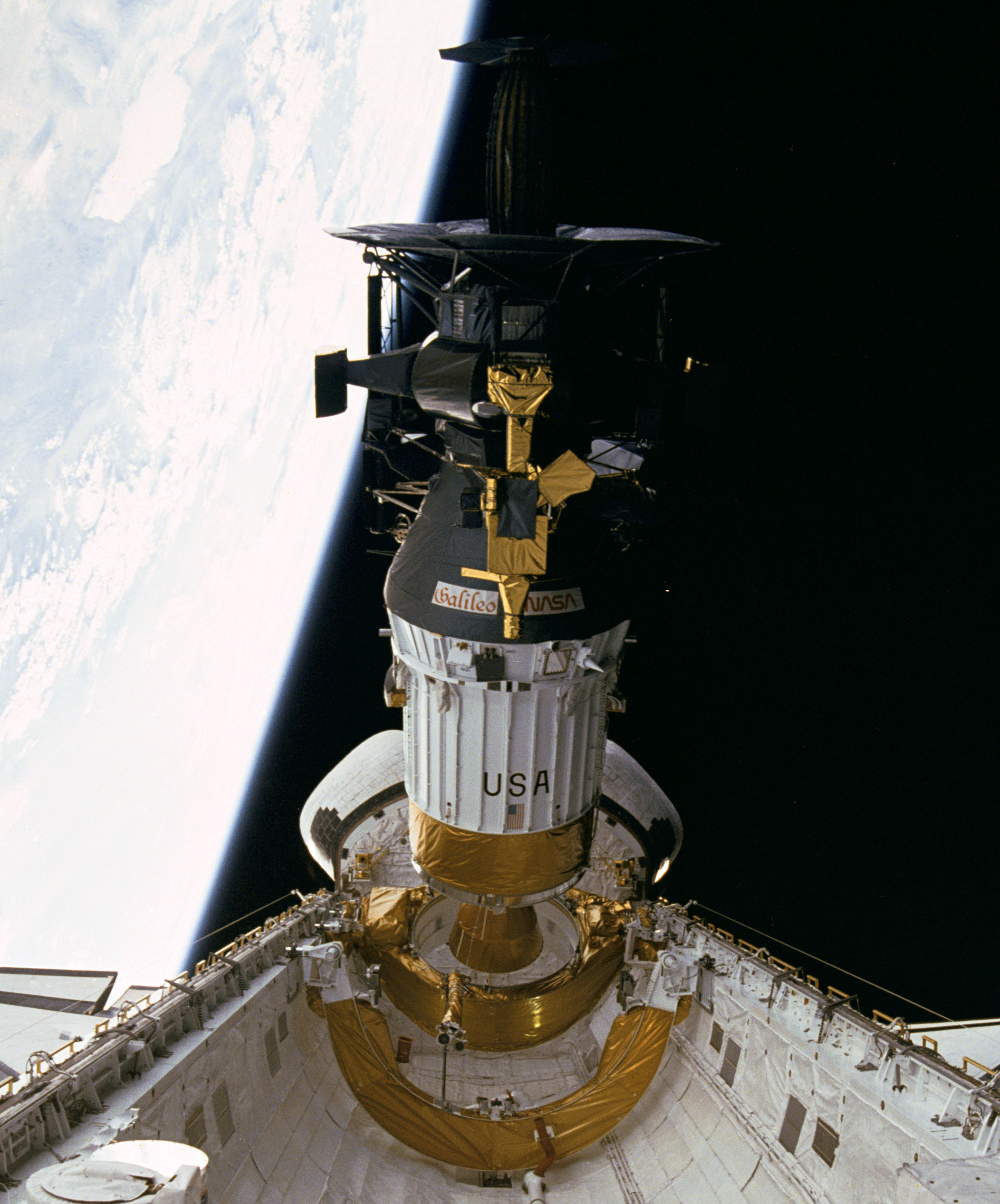 Galileo probe deployed. This photograph was taken by the STS-34 crew aboard the Space Shuttle Atlantis and shows the Galileo spacecraft being deployed on Oct. 18, 1989 from the payload bay. Galileo is a scientific craft that will go into orbit around the planet Jupiter and drop a probe into its atmosphere in search of primordial solar system material believed to be present there. The 70mm motion picture film will be used in the forthcoming "Blue Planet," which will address Earth's environmental problems from the perspective of space-based observation and solar system exploration. The film is being produced by IMAX Space Technology Inc. for the sponsor, the Smithsonian Institution, with funding provided by the Lockheed Corporation.